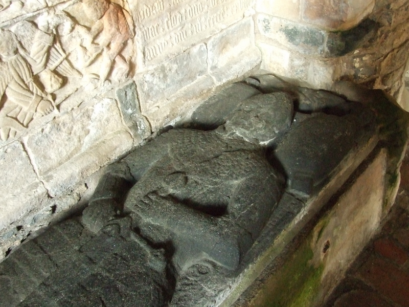 Photo of effigy on Alasdair Crotach's tomb